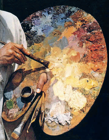 Photo of an oil painting palette. Photo taken by Max Wehlte. Max Wehlte allows use of his photographs for any purpose.